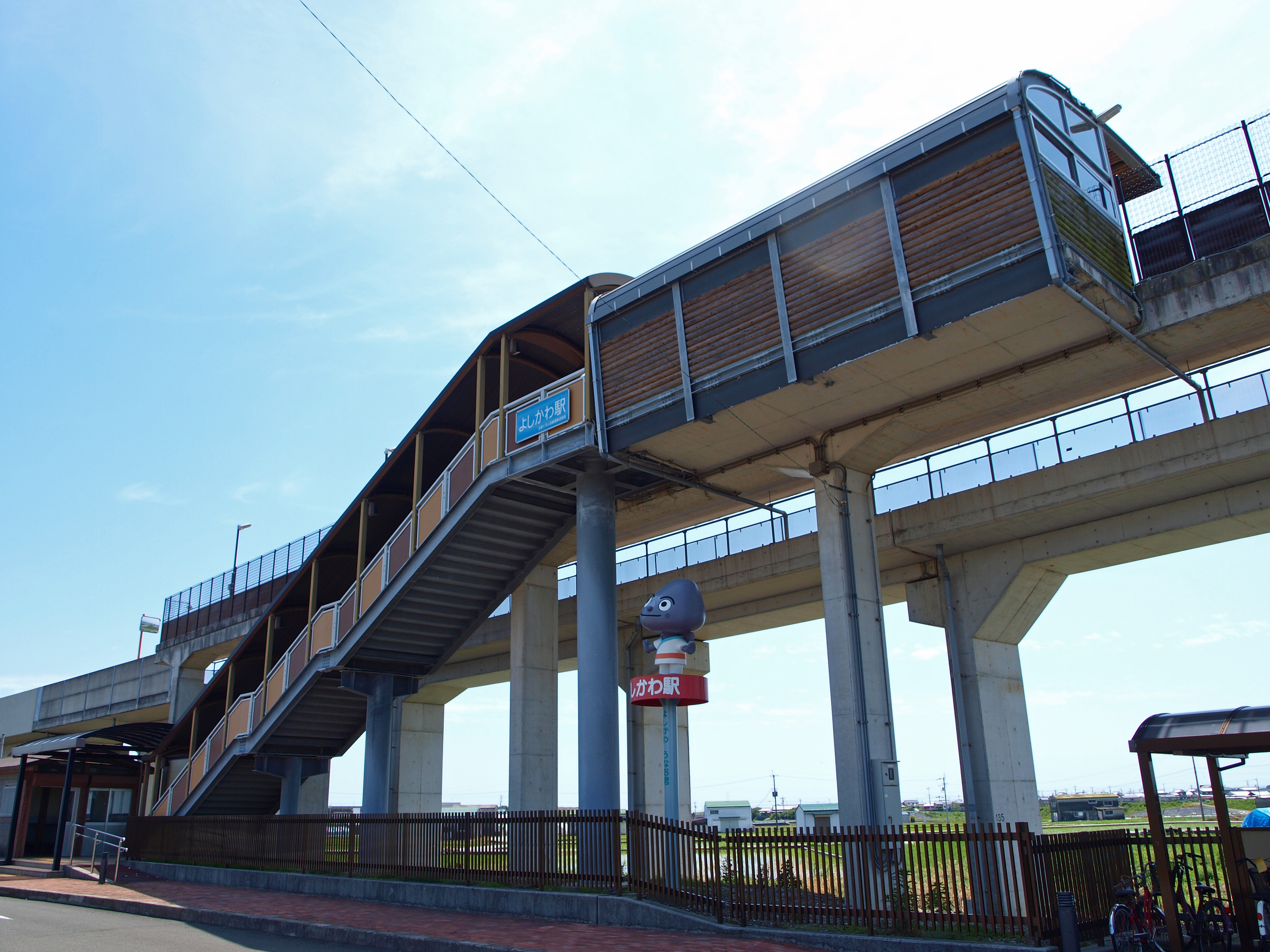 Yoshikawa Station, Gomen-Nahari Line（Asa Line), Tosa Kuroshio Railway, Japan